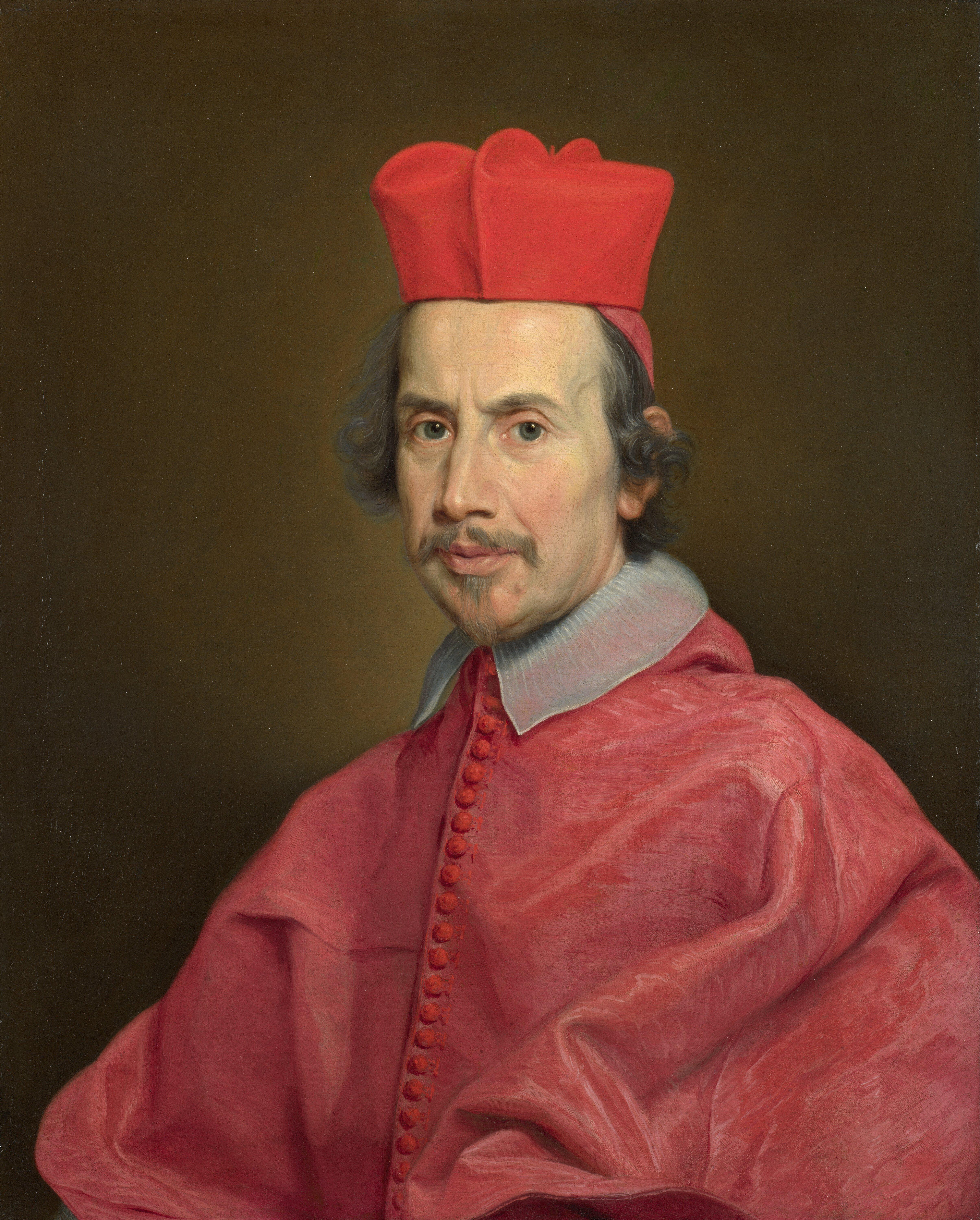 Portrait of Cardinal Marco Gallo